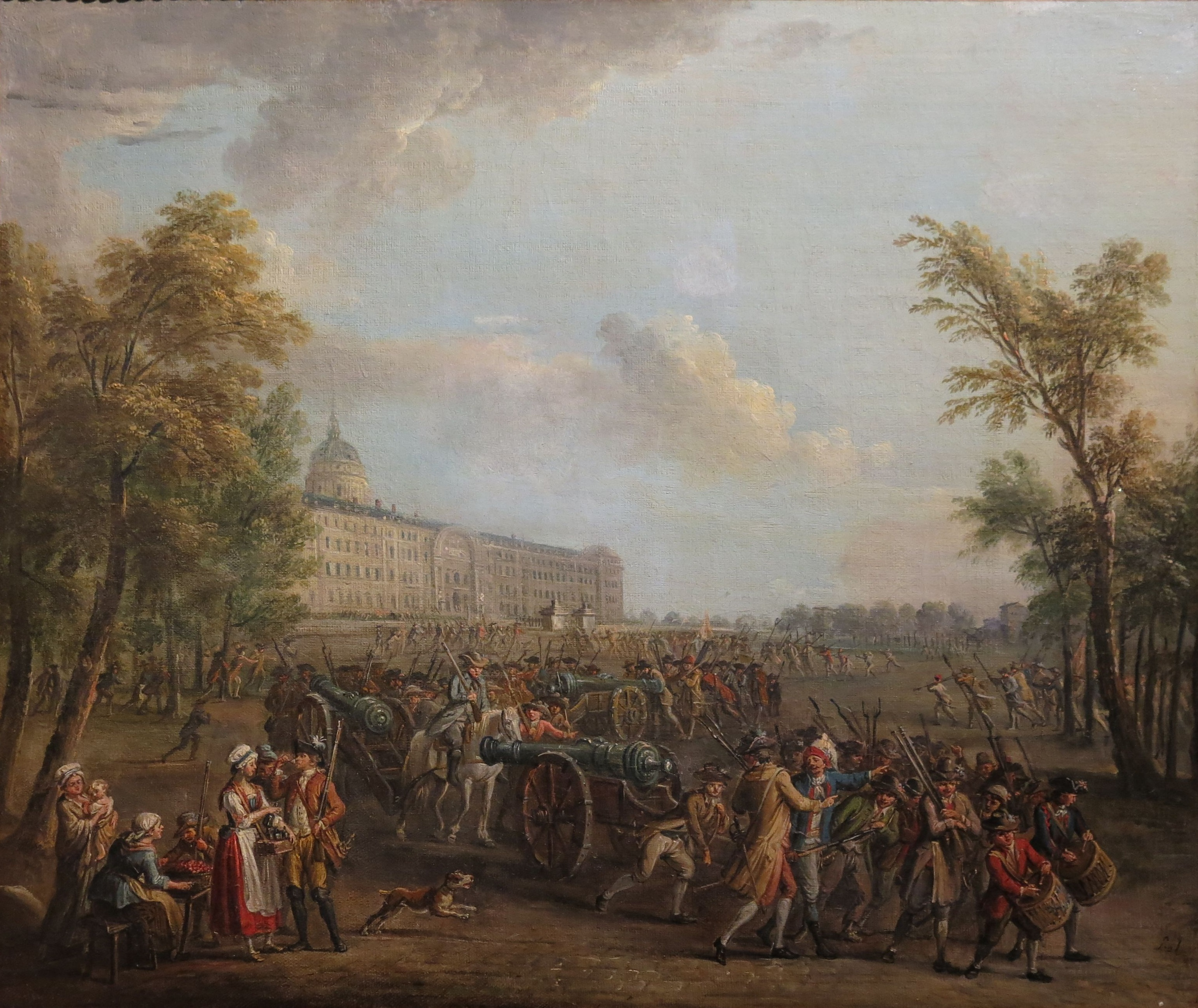 Jean-Baptiste Lallemand - Pillage des armes aux Invalides, le matin du 14 juillet 1789 (Looting the weapons to the Invalides on the morning of July 14, 1789), oil on canvas, Musée Carnavalet, 1789/1790